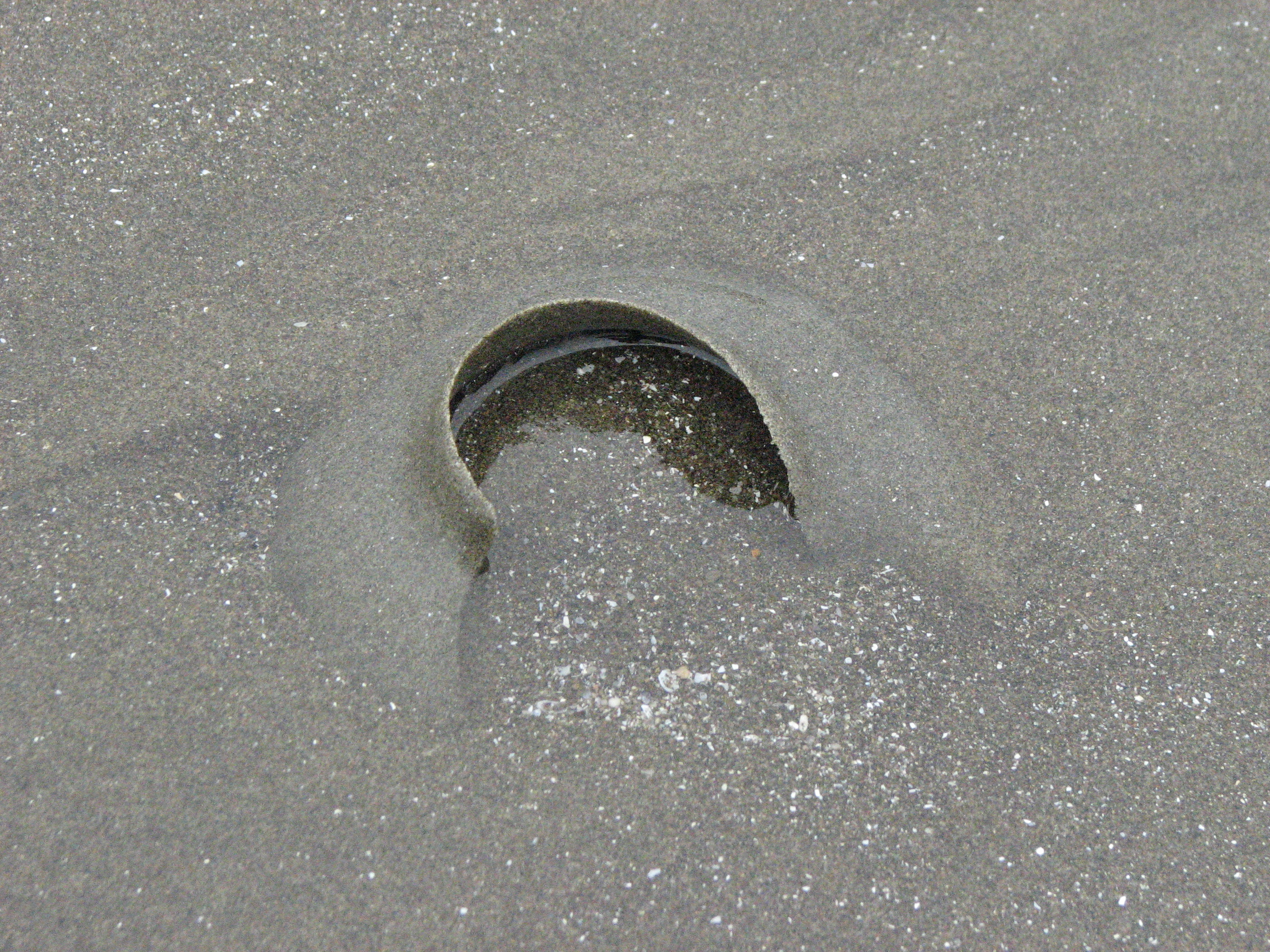 Eggs mass of Neverita didyma (Röding, 1798). Makuhari beach, Chiba Japan.